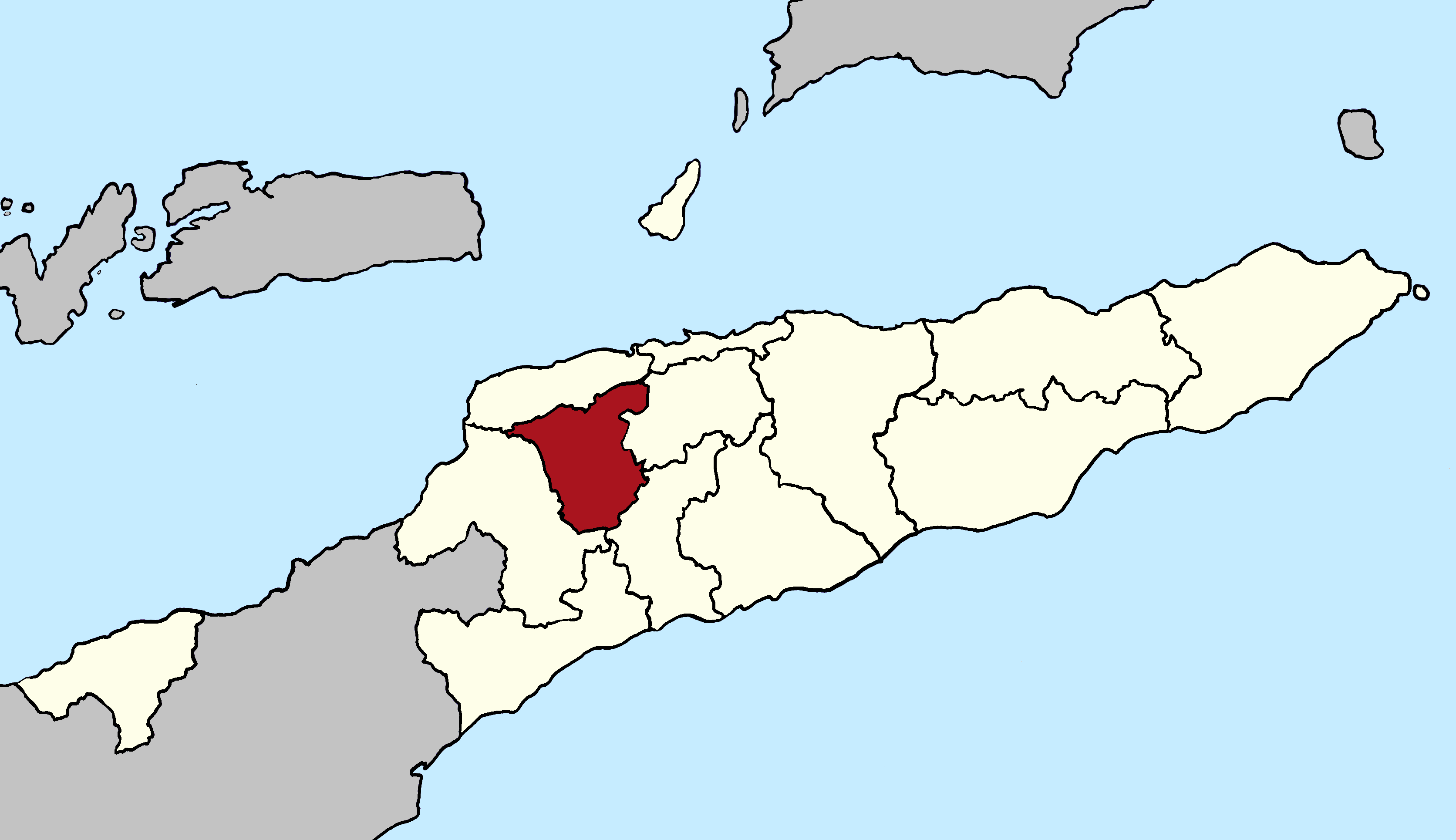 Locator map of Ermera municipality since 2015, East Timor